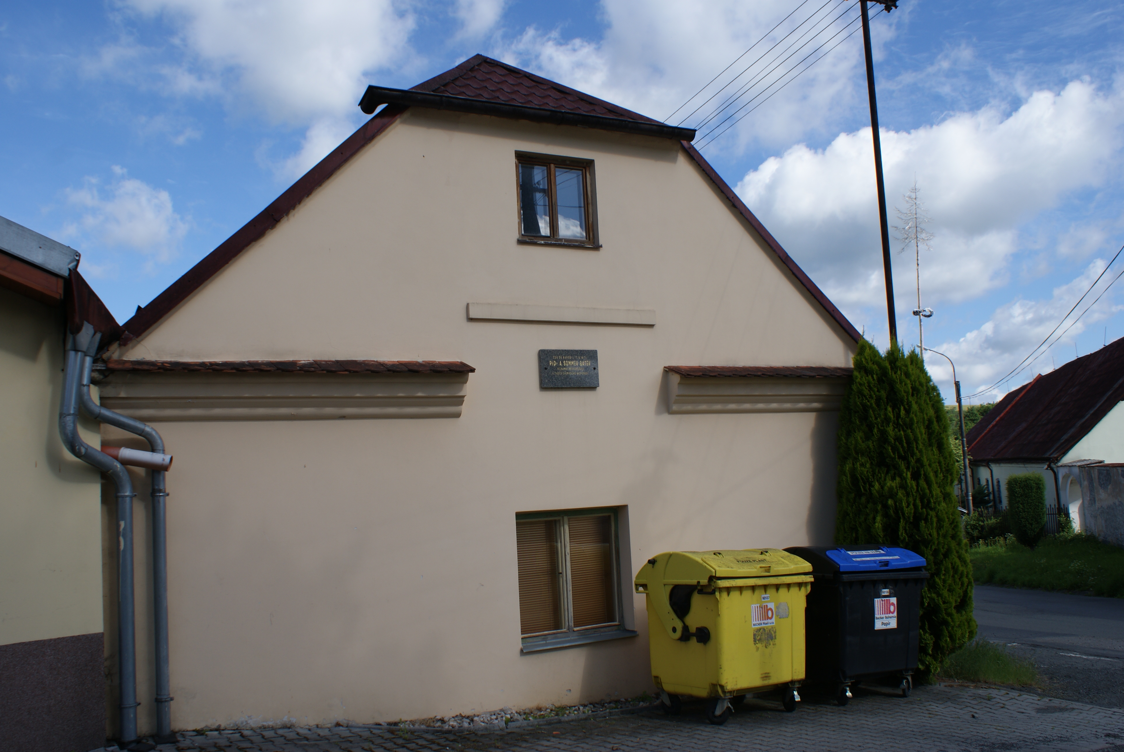 Memorial plate of dr. Alexandr Sommer Batěka in Prádlo, a village in Plzeň-South District, Czech Republic